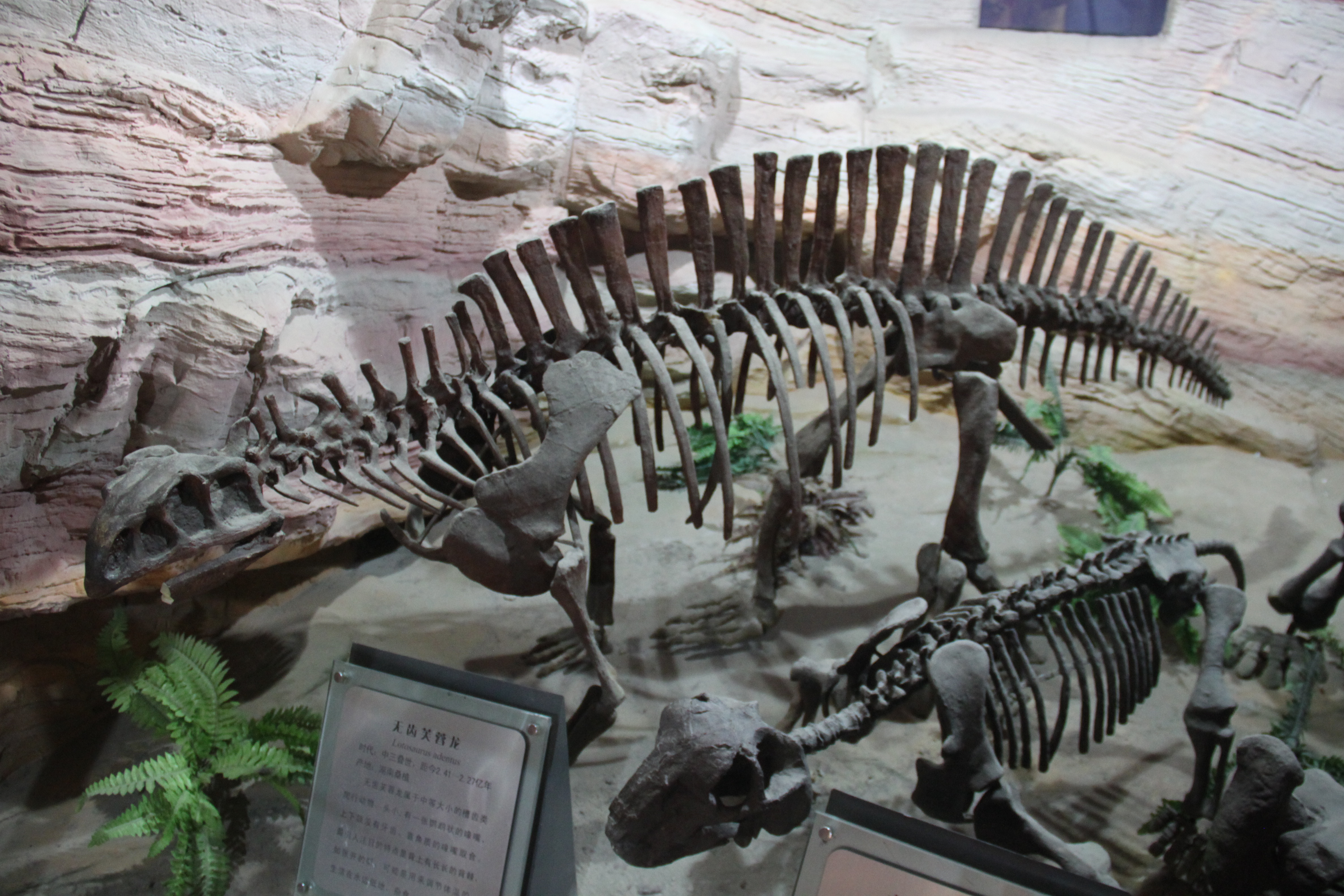 Henan Geological Museum, Zhengzhou, China. Complete indexed photo collection at .